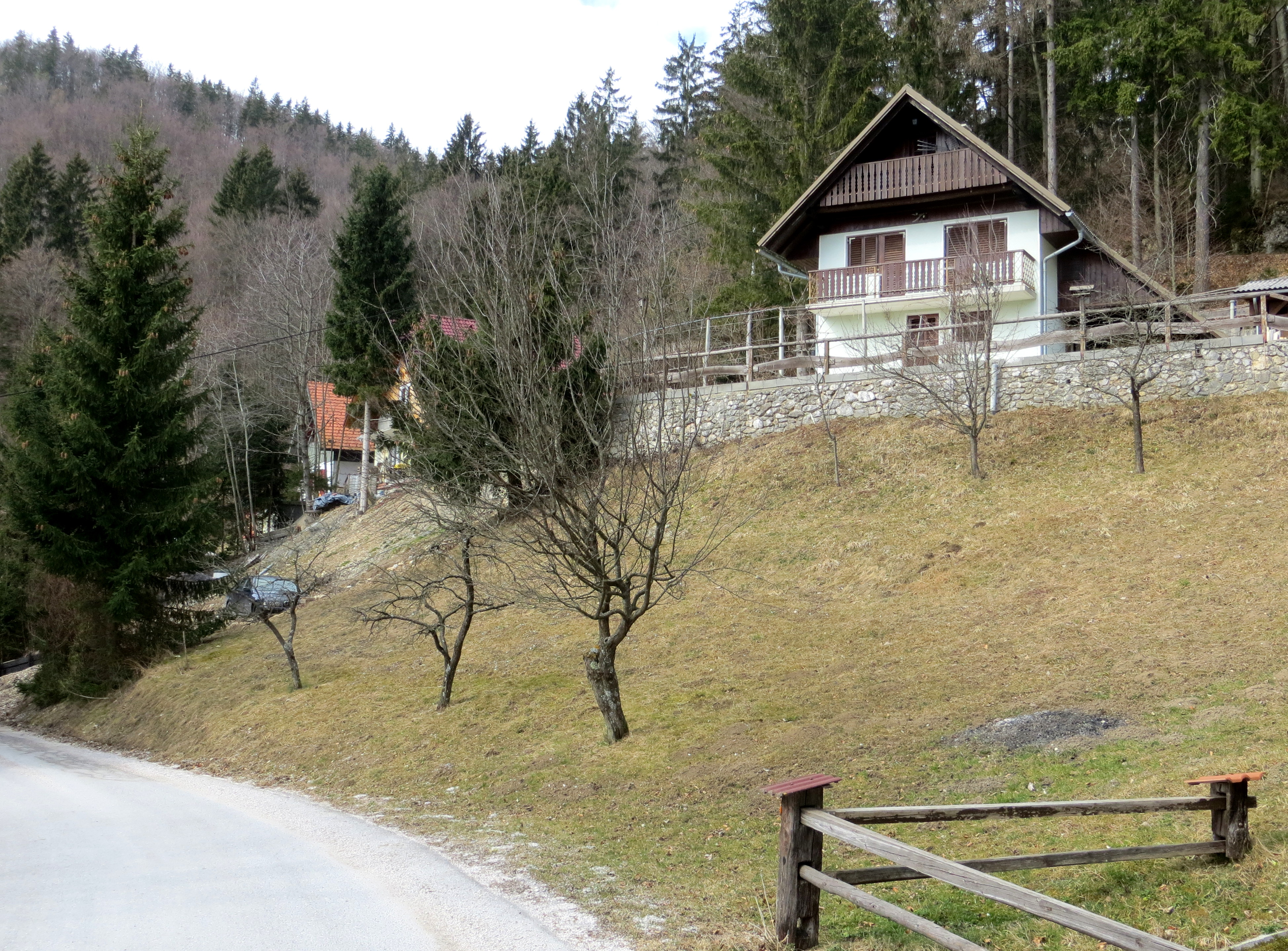 Sovinja Peč, Municipality of Kamnik, Slovenia